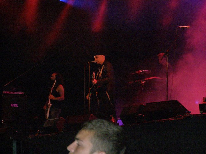 Tiamat live in Wacken 2010